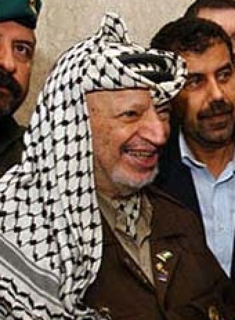 Picture made on 14 April 2002, when US Minister of State Colin Powell visited Yasser Arafat, in his besieged headquarters in Ramallah.